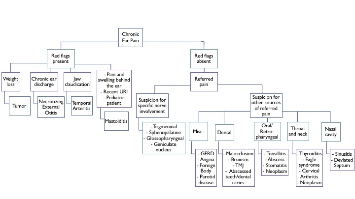 framework for ear pain workup